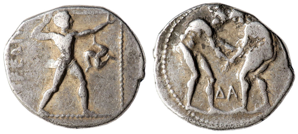 City/Region: Pamphylia, Aspendos; Denomination: AR Stater; Composition: Silver Date: 370-333 BC; Obverse: Olympic games-type scene: two wrestlers grappling, the letters delta and alpha between their legs; Reverse: EΣTEΔIIYΣ , Olympic games-type scene: Slinger, wearing short chiton, discharging sling to right, triskeles on right with feet clockwise; Size: 23.6mm, 10.851g; Grade: gVF Reference: SNG Cop 233; SNG France 87